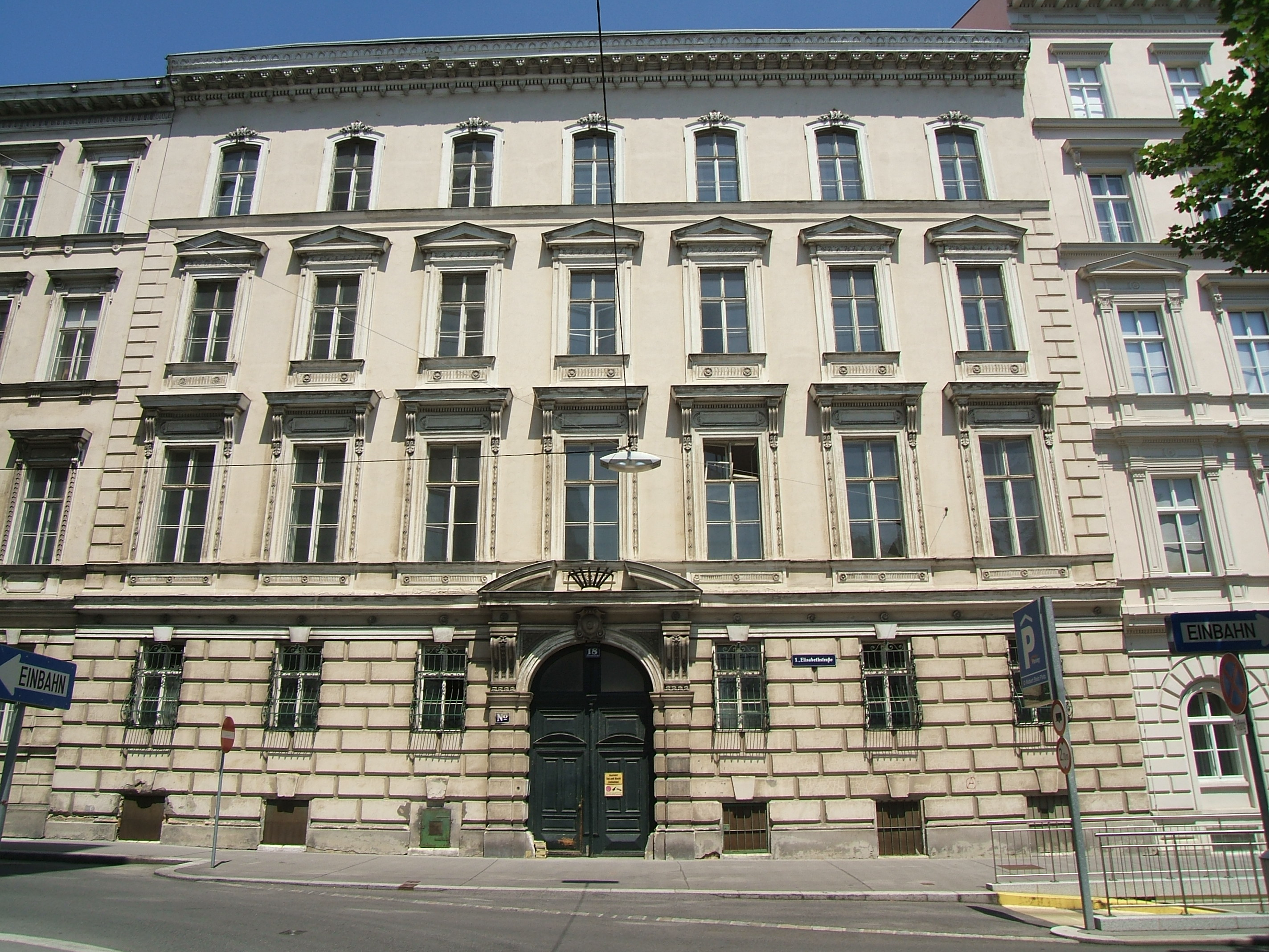 Palais Mayr in Vienna Elisabethstraße 18